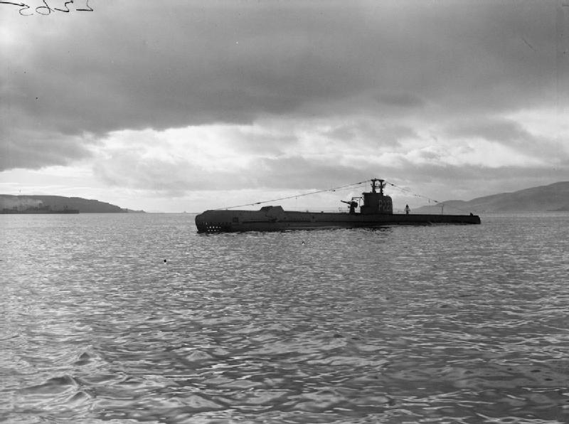 British S class submarine HMSM SEA NYMPH underway in the Clyde.